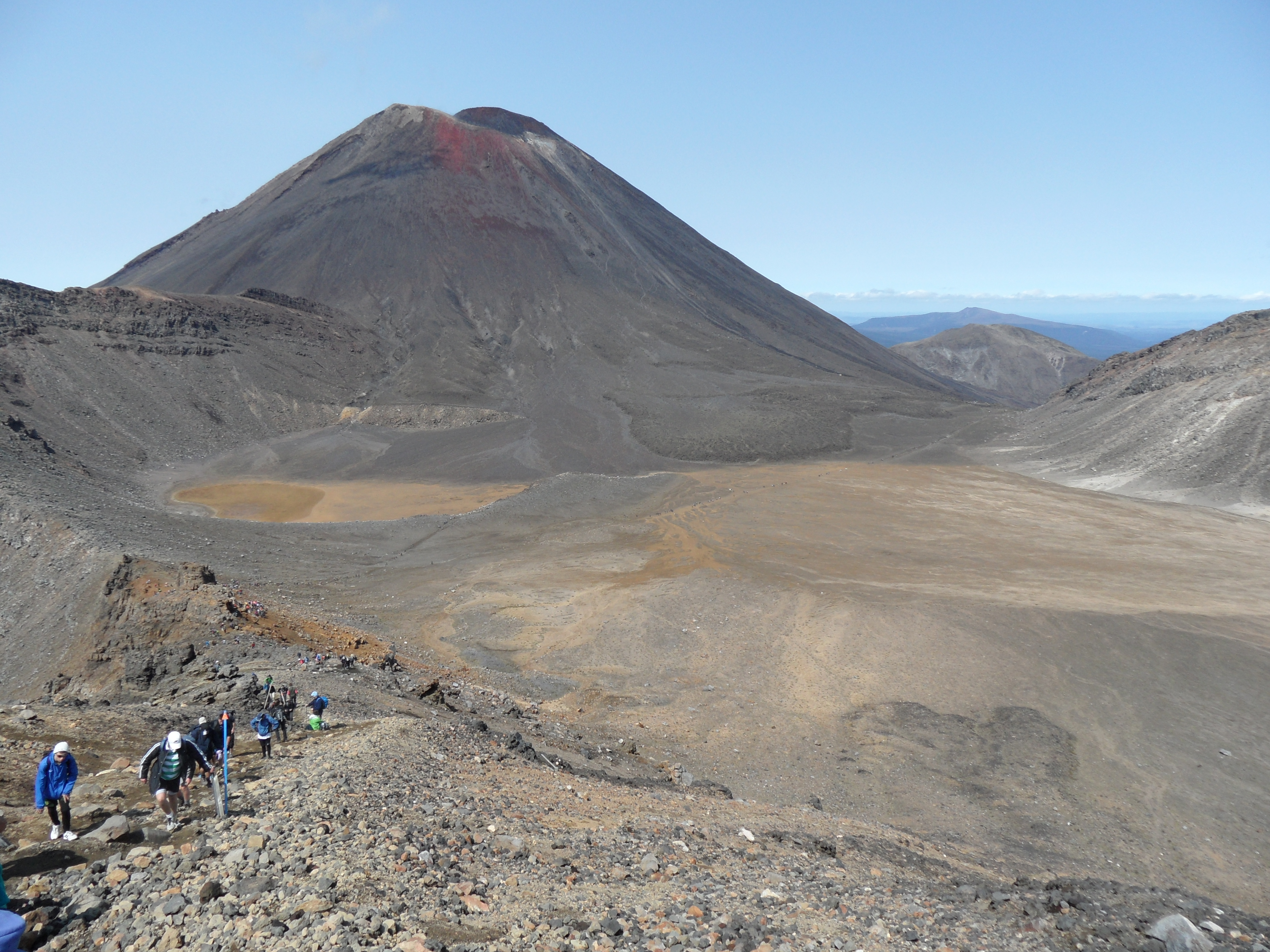 Mt Ngauruhoe viewed from the summit of Red Crater on the Tongariro Crossing Track,Tongariro National Park